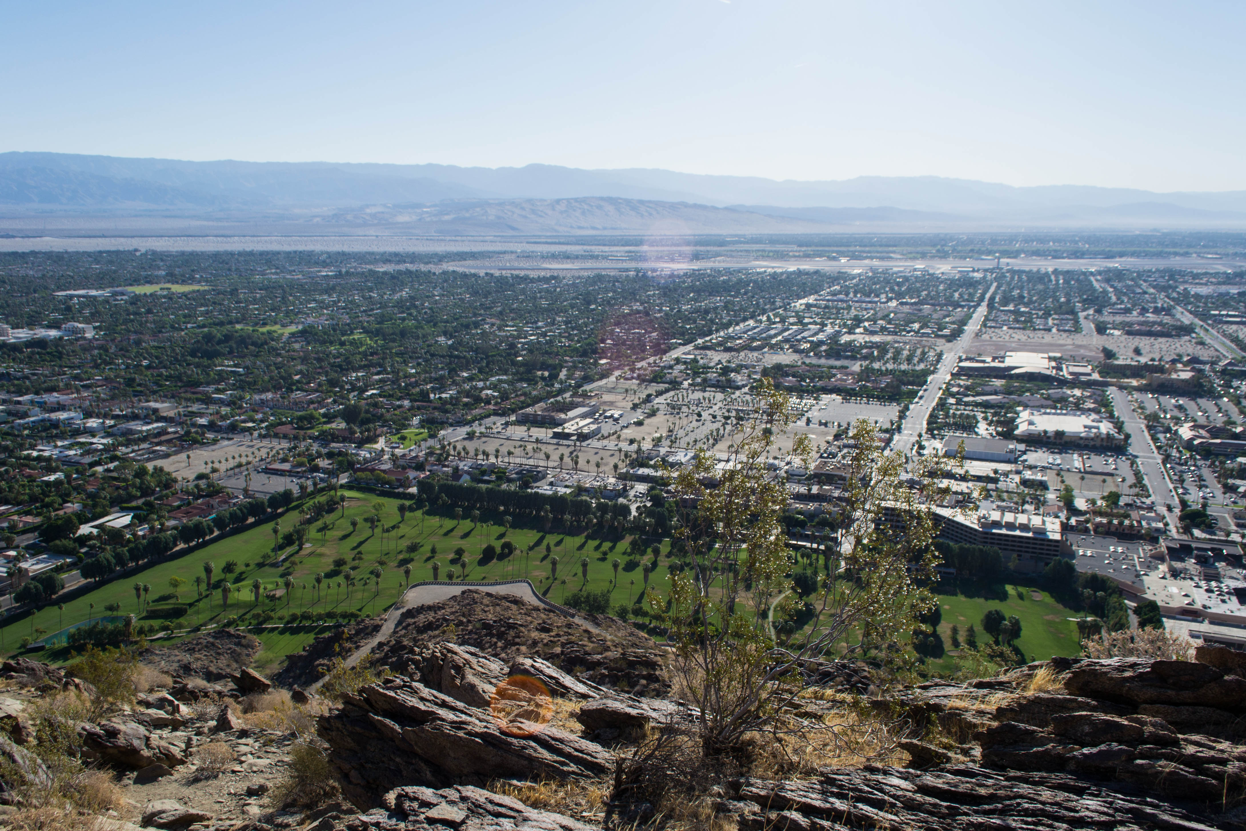 A view of Palm Springs from the Museum Trail